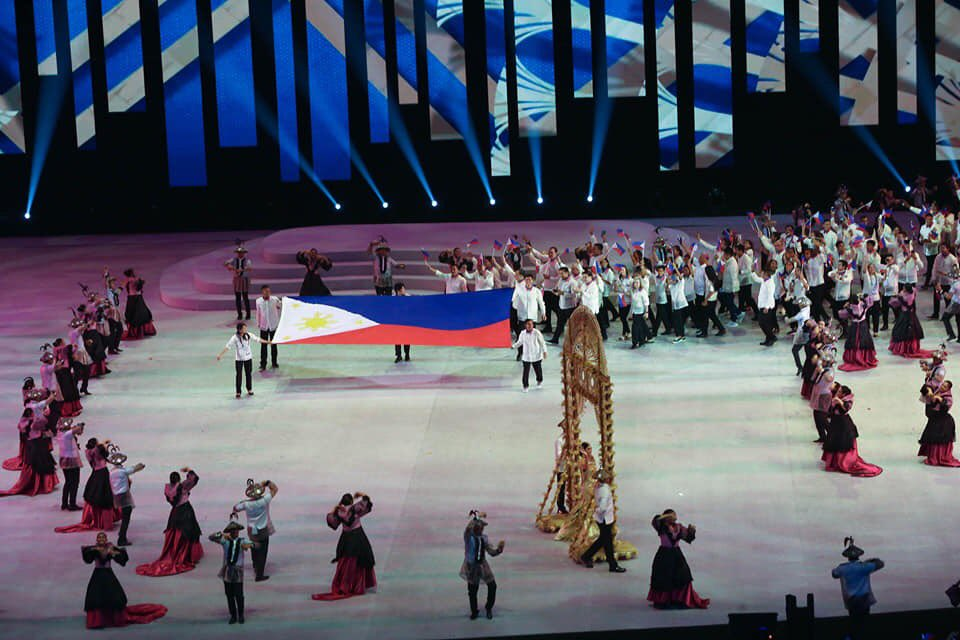 Filipino athletes make their entrance as they join the parade during the opening ceremony of the Philippines 2019 30th Southeast Asian (SEA) Games at the Philippine Arena in Bocaue, Bulacan on November 30, 2019. REY BANIQUET/PRESIDENTIAL PHOTO